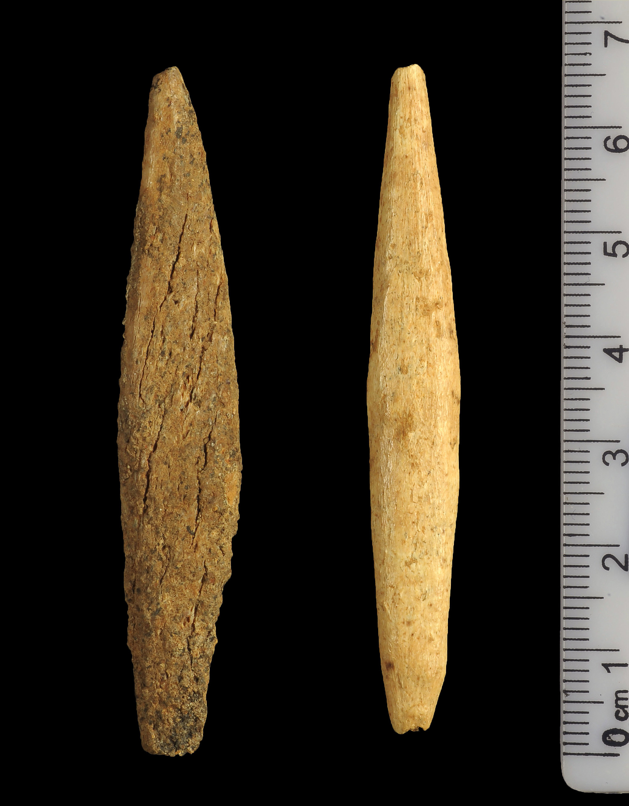 Antler points. Manot Cave (Israel), The Upper Paleolithic Period.